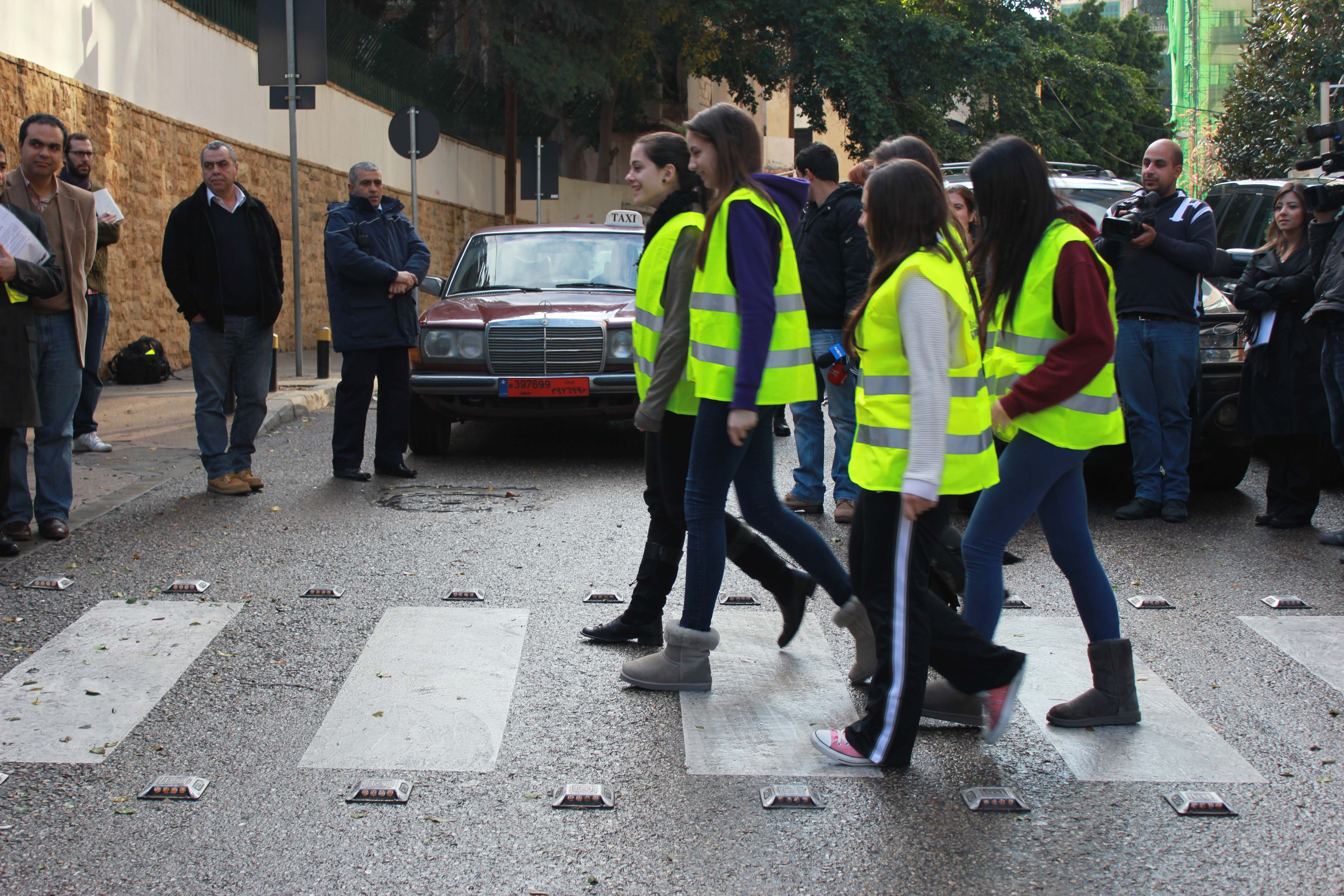 Installed in 2011, the pedestrian safe crossing in front of International College Beirut was the first among many crossings